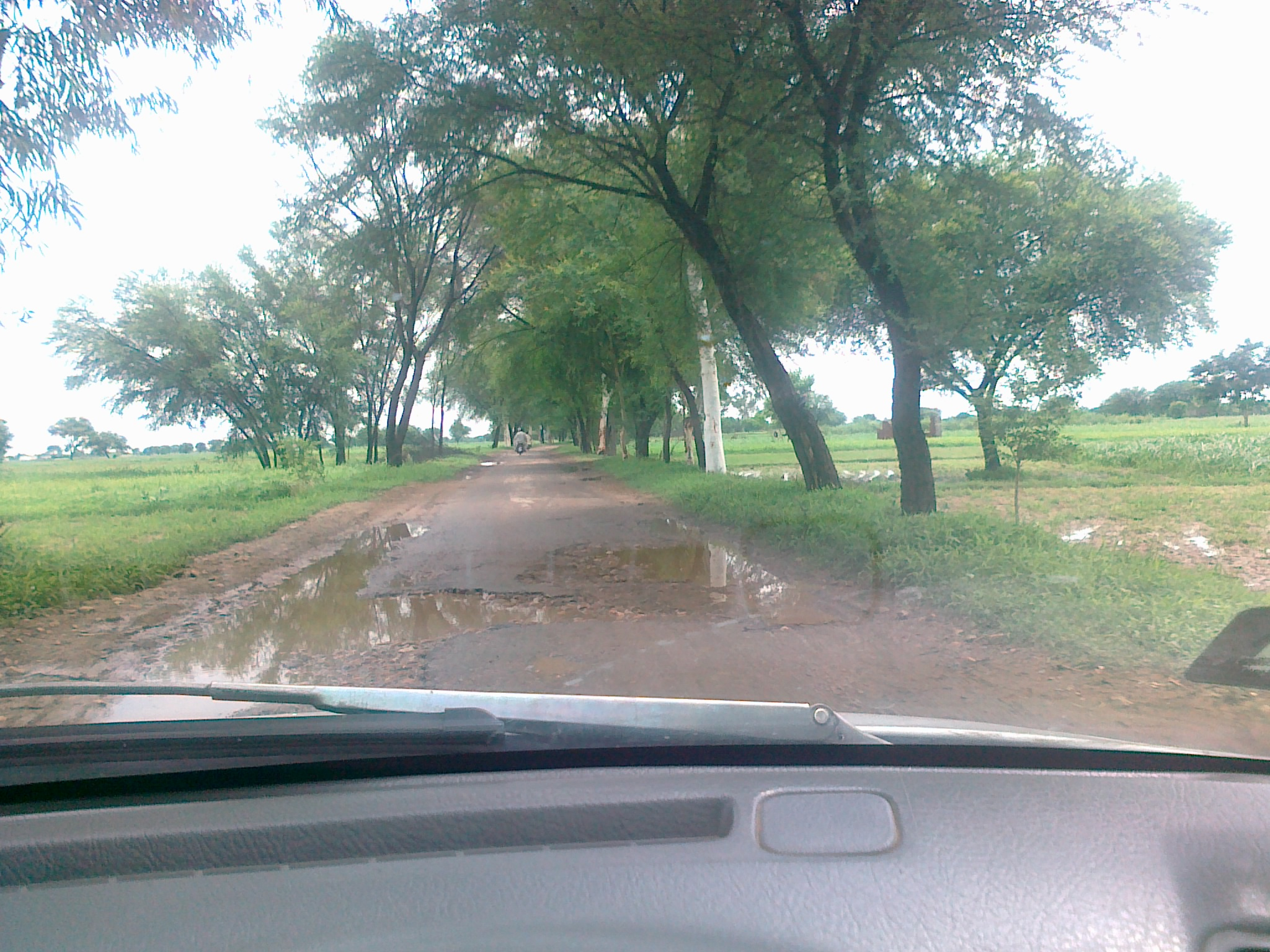 Langrial, road towards Ladian (Ladiyan), in Kharian tehsil, Gujrat district, Punjab, Pakistan)